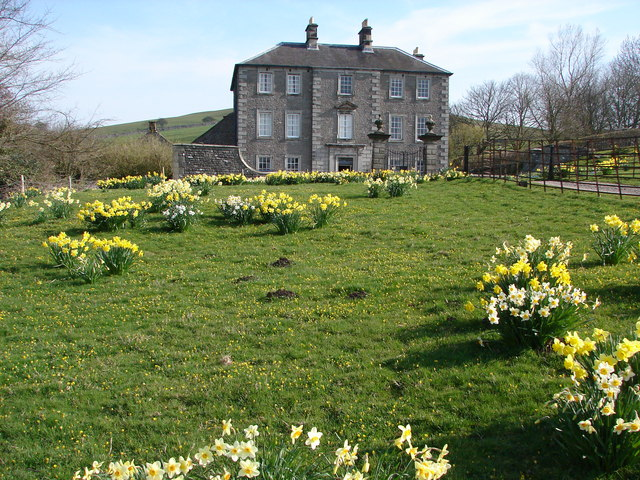 Daffodils at Castern Hall Castern hall is open to the public on one day a year.